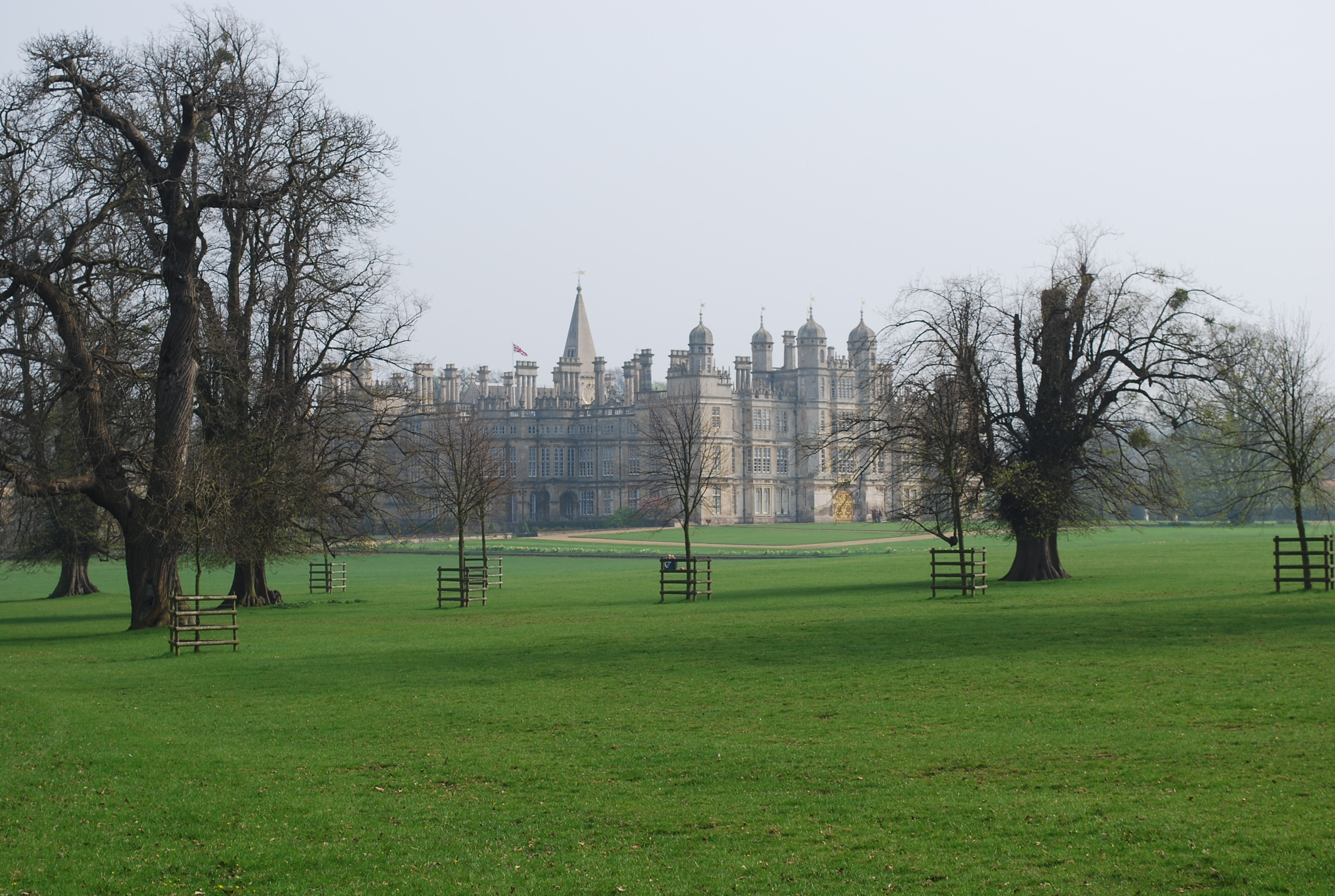 View of Burghley House from the parkland surrounding it.